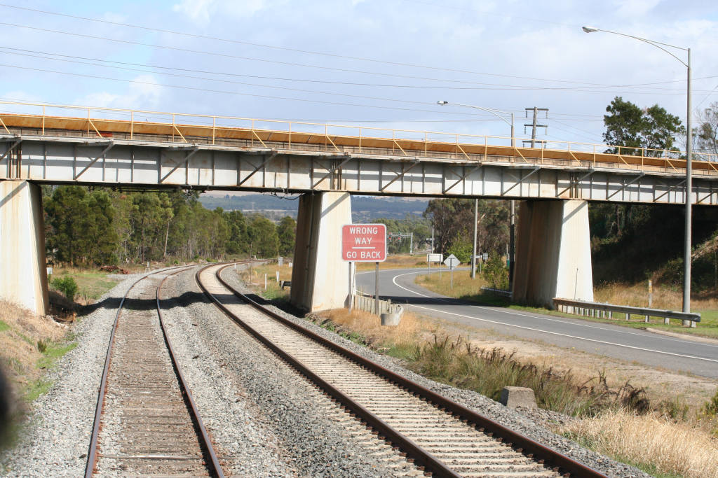 Bridge for the former Morwell Interconnecting Railway over the top of the still open Bairnsdale railway line, Victoria at Hernes Oak